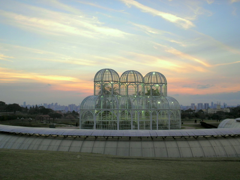 Sunset in the Botanical Garden of Curitiba, in Curitiba, capital of Paraná state, in southern Brazil.